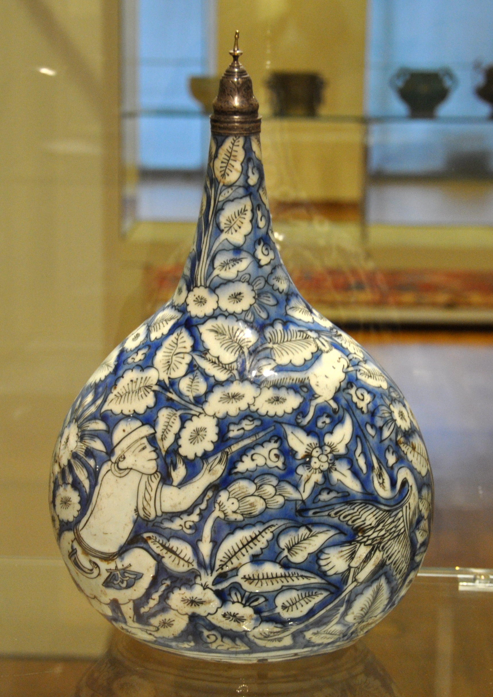 Ceramic bottle, Iran, 2nd half of 17th century; Museum für Angewandte Kunst Frankfurt am Main, Inv. No. H. St. 13